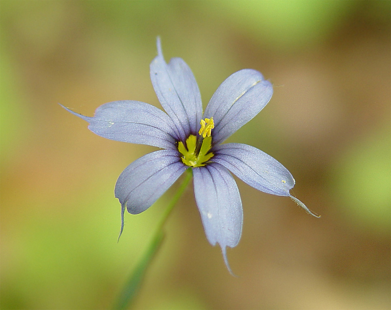 Sisyrinchium angustifolium, focus bracketed from two images